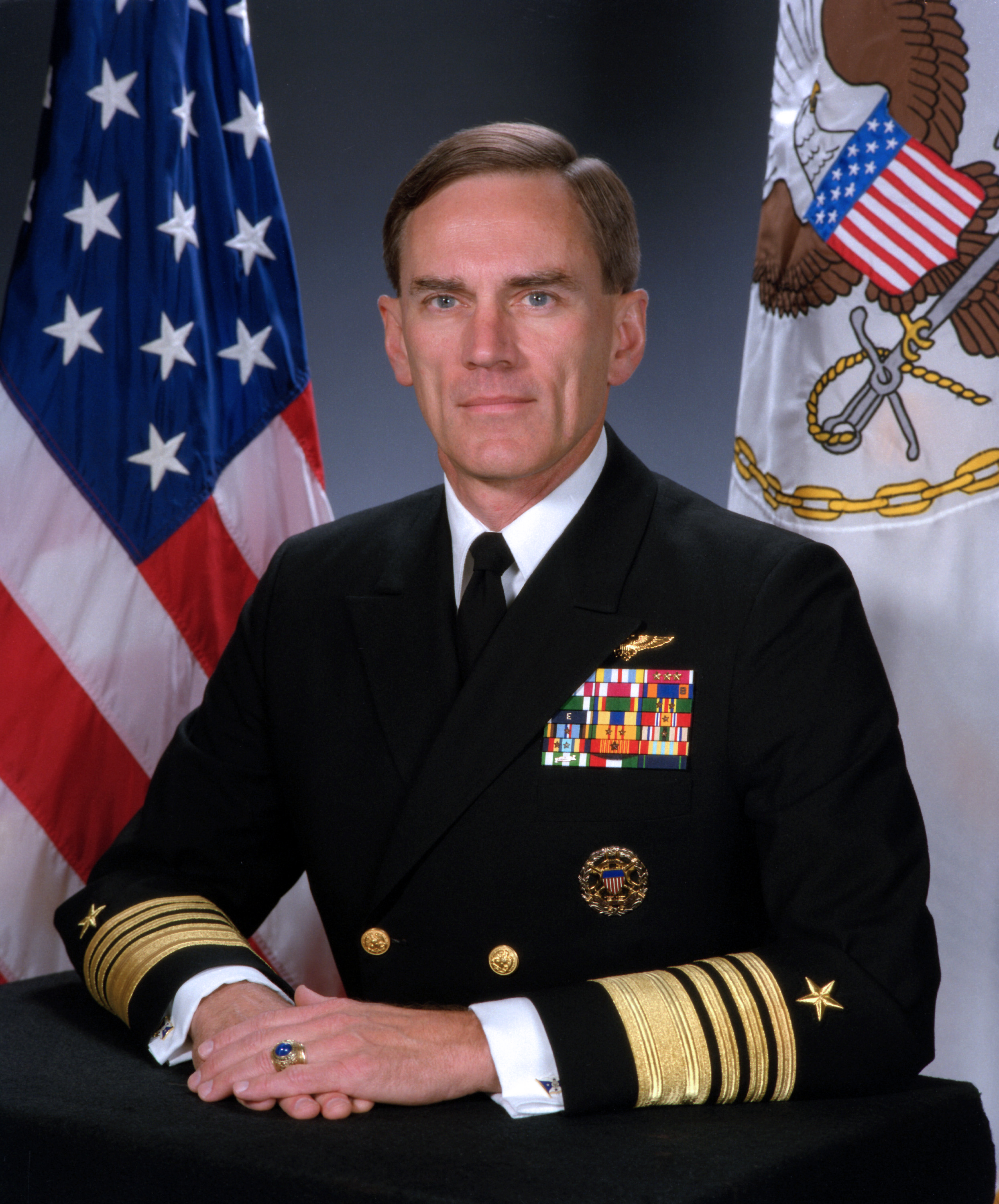 Jay Johnson, former Chief of Naval Operations.